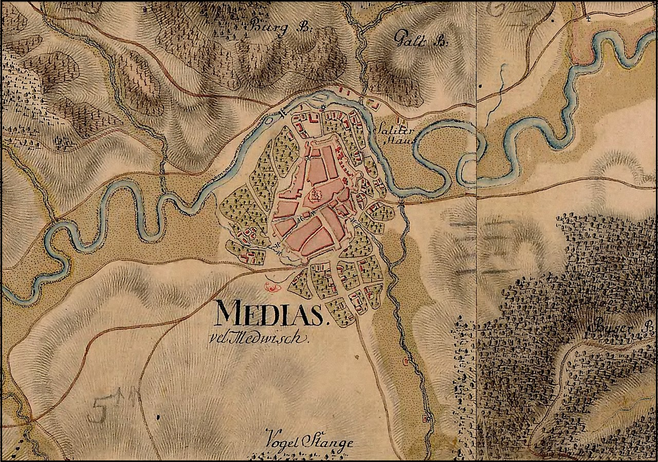 Mediasch on map 173 of the Josephinische Landesaufnahme from 1769-1773